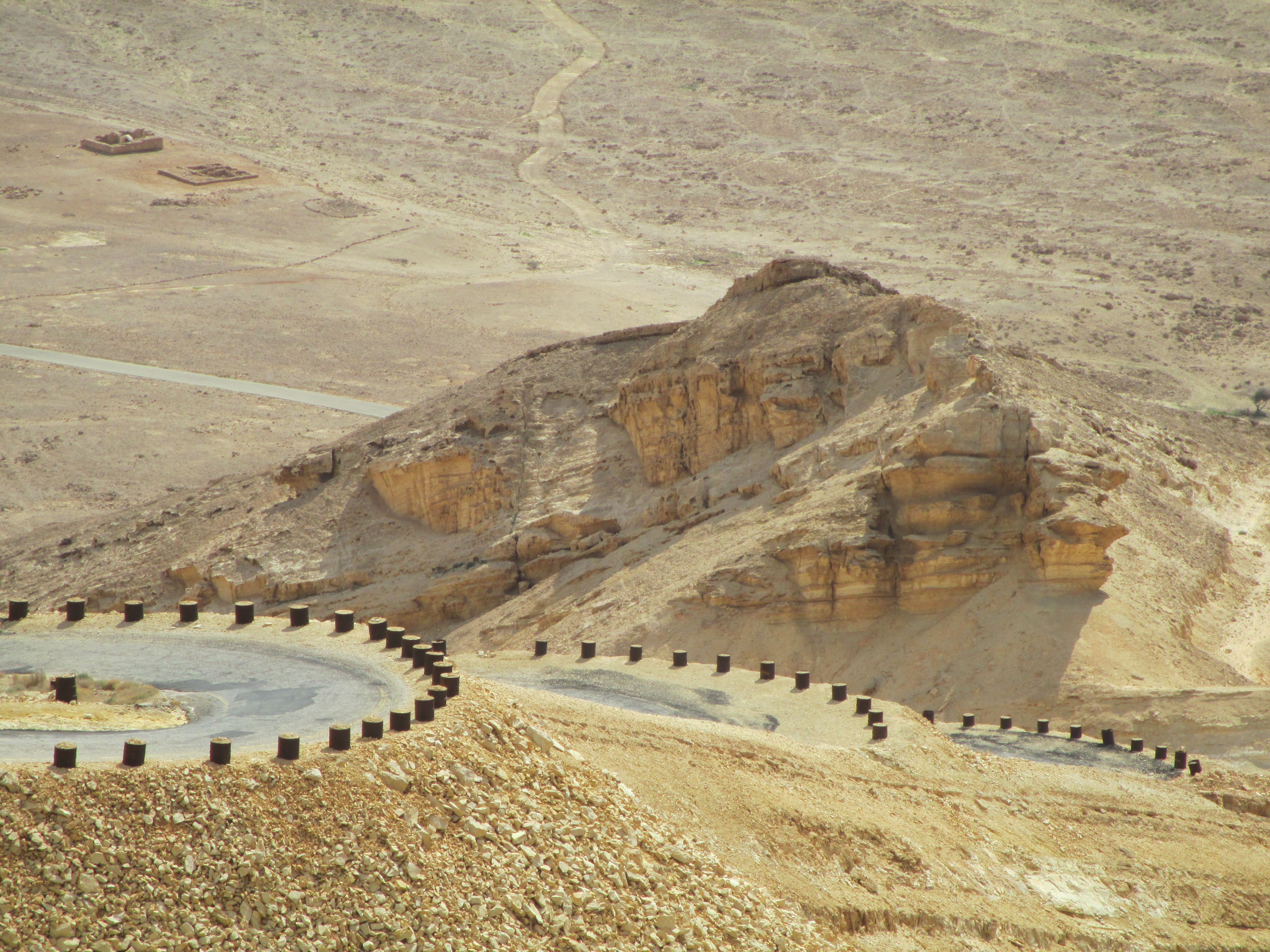 Lion (Frog) Rock in Ma'ale Akrabim